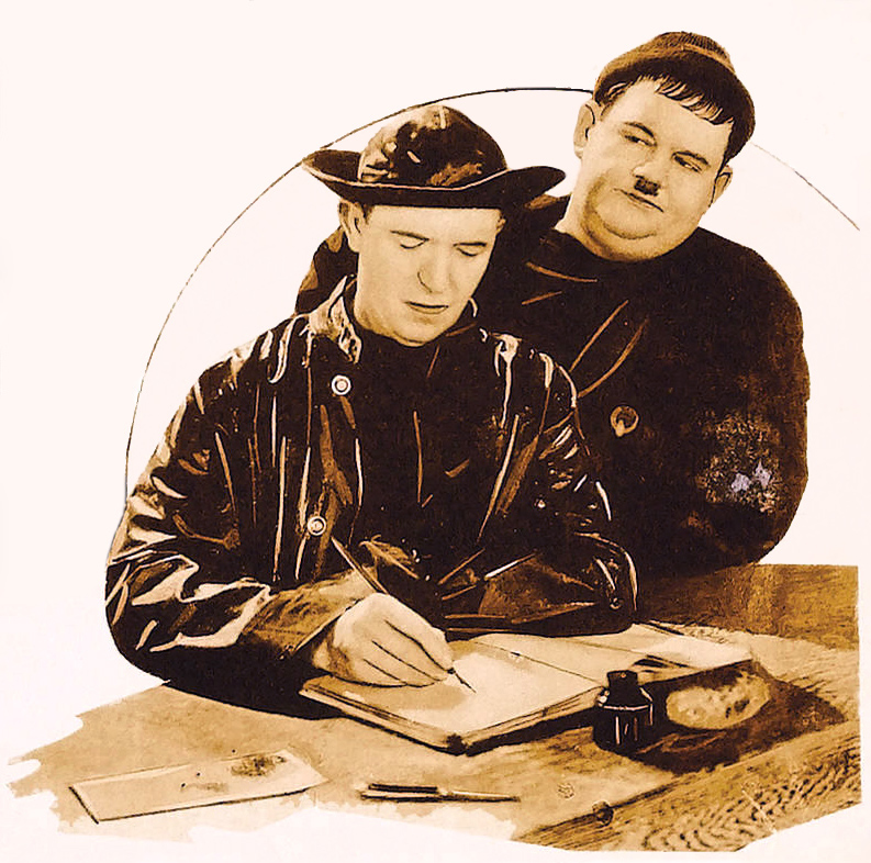 Laurel and Hardy in promotional material for Any Old Port (1932)